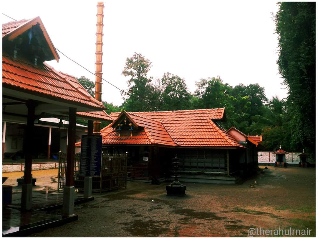 The Sree Dharma Shastha Temple entrance